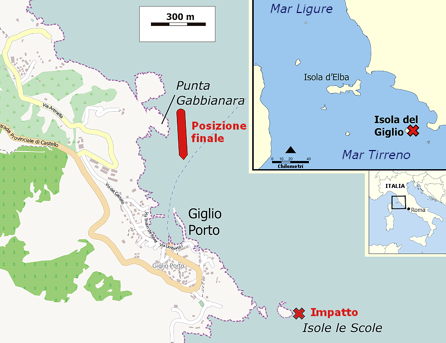 Approximate position where the Costa Concordia cruise-ship ran aground close to the Isola del Grigio, Italy on 2012-01-13. Own work based on media coverage.